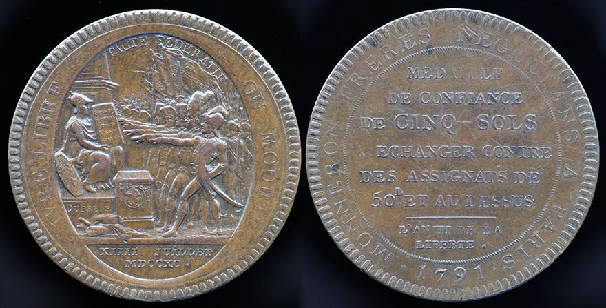 The scene on the obverse shows the Oath of the Federation, the first anniversary of which was celebrated by the Festival of the Federation on 14 July 1790. The Festival, which included a mass held by the great French statesman Talleyrand (1754-1838), then the Bishop of Autun, also commemorated the taking of the Bastille and the bond uniting the nation, the king, and the people. Generally, this type coin is common. However, this first type of 1791, minted by Matthew Boulton at his steam powered mint in Soho, Birmingham, England, is very rare at the first of many die varieties. This first issue type features a Roman Numeral Date and a Revolutionary date system of L'AN III.